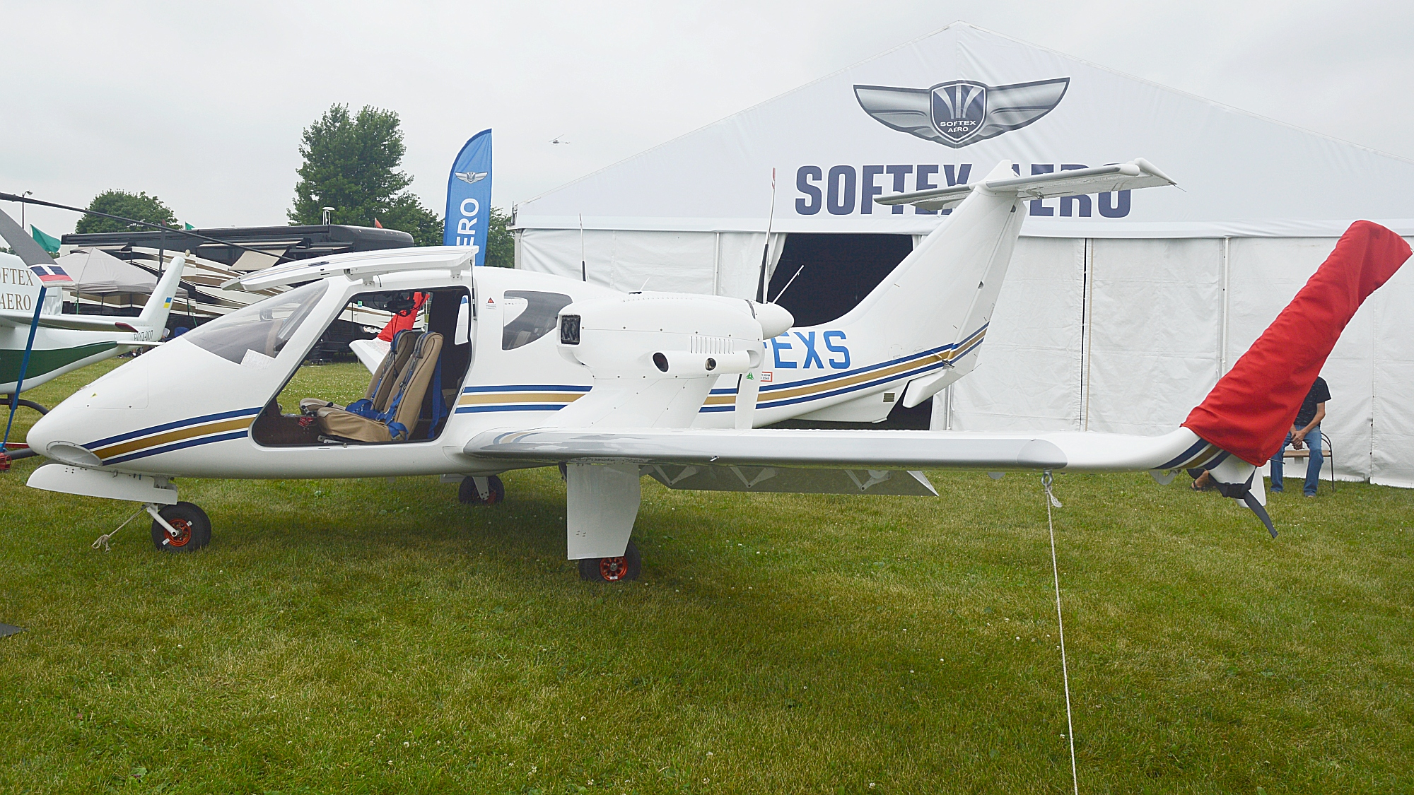 At EAA AirVenture Oshkosh, Wisconsin